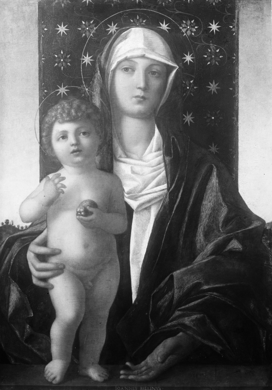 'Mary with the Christ Child', by Giovanni Bellini, ca. 1500. The painting was destroyed or disappeared in Berlin in May 1945, in the Friedrichshain flak tower fire. - Dimensions: 77 x 56 cm - Oil painting on wood